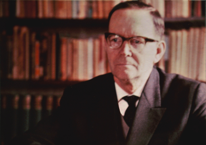 The picture shows the German theologian and missionary scholars Paul Gäbler in the year 1963.